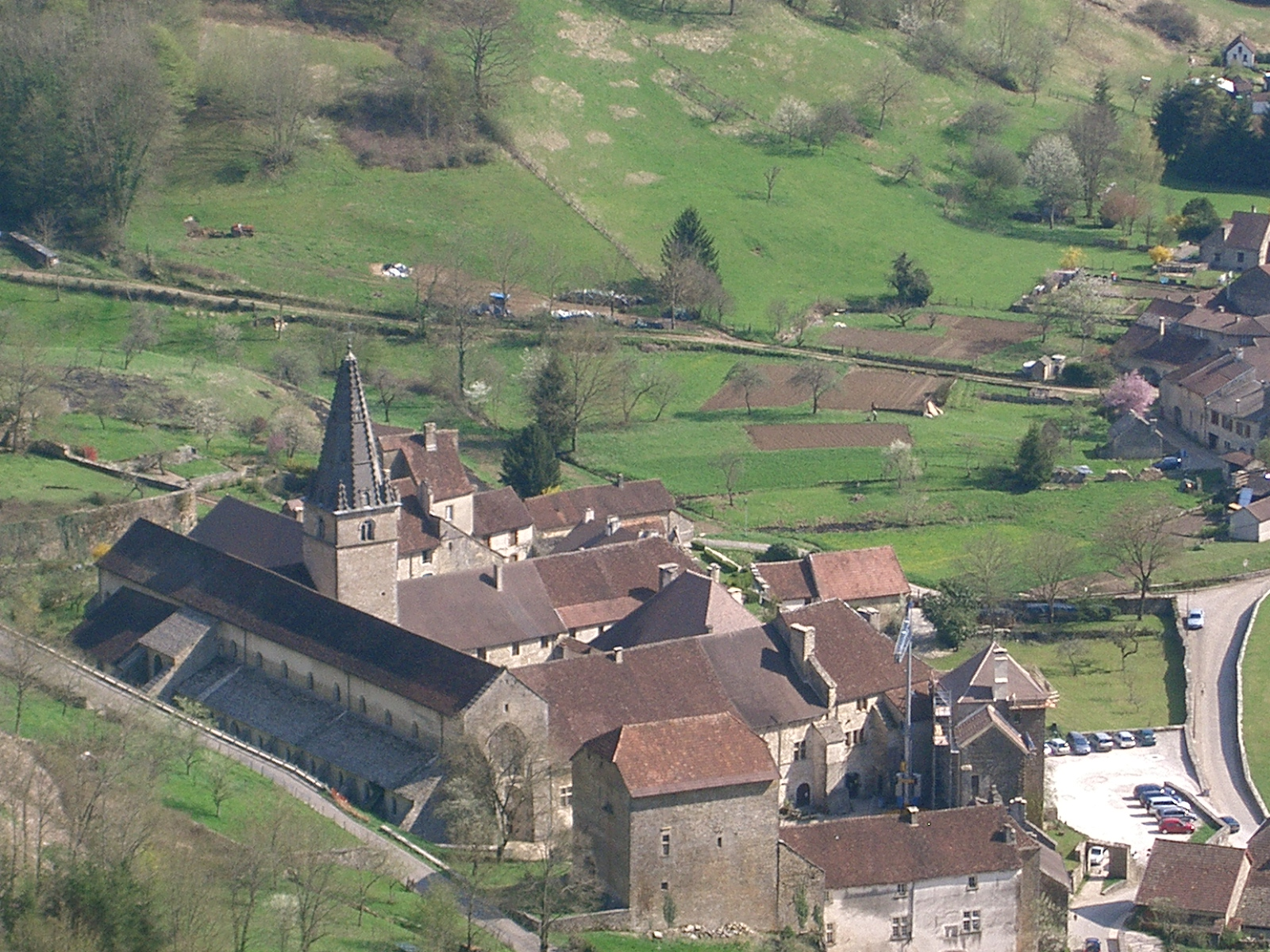 A former Benedictine abbey (Order of Cluny) in Baume-les-Messieurs, Jura, France.